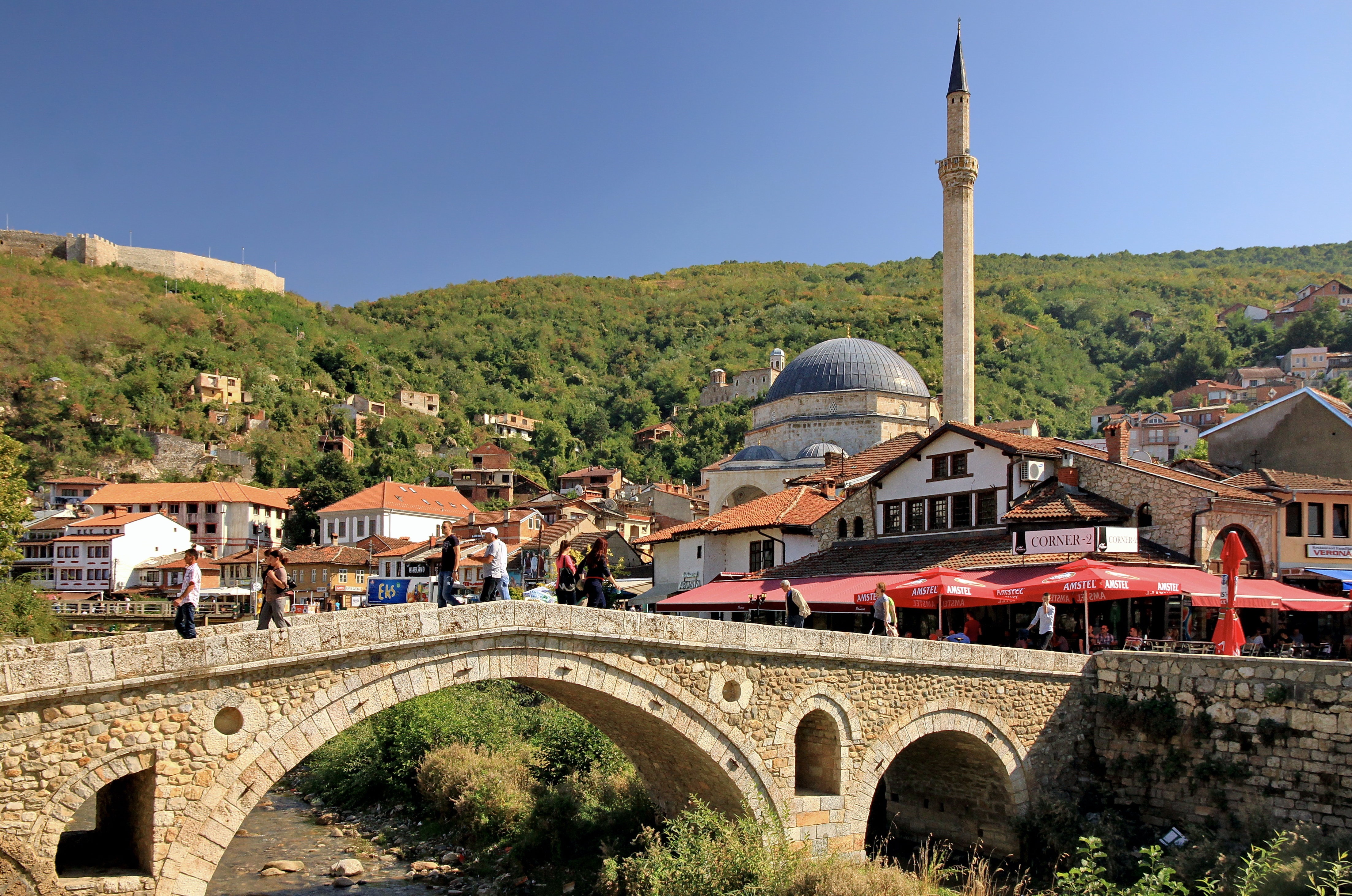 Stone Bridge. Prizren, KosovoTürkçe: Taşköprü. Prizren, Kosova